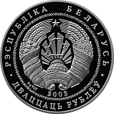 History and Culture of Belarus. Commemorative coins "Savior Praabrazhenskaya tsarkva" (Transfiguration Church)